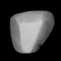 3D convex shape model of 1230 Riceia, computed using light curve inversion techniques. J. Hanuš, J. Ďurech, M. Brož, B. D. Warner (June 2011). "A study of asteroid pole-latitude distribution based on an extended set of shape models derived by the lightcurve inversion method". Astronomy and Astrophysics 530: A134. ISSN 0004-6361. arXiv